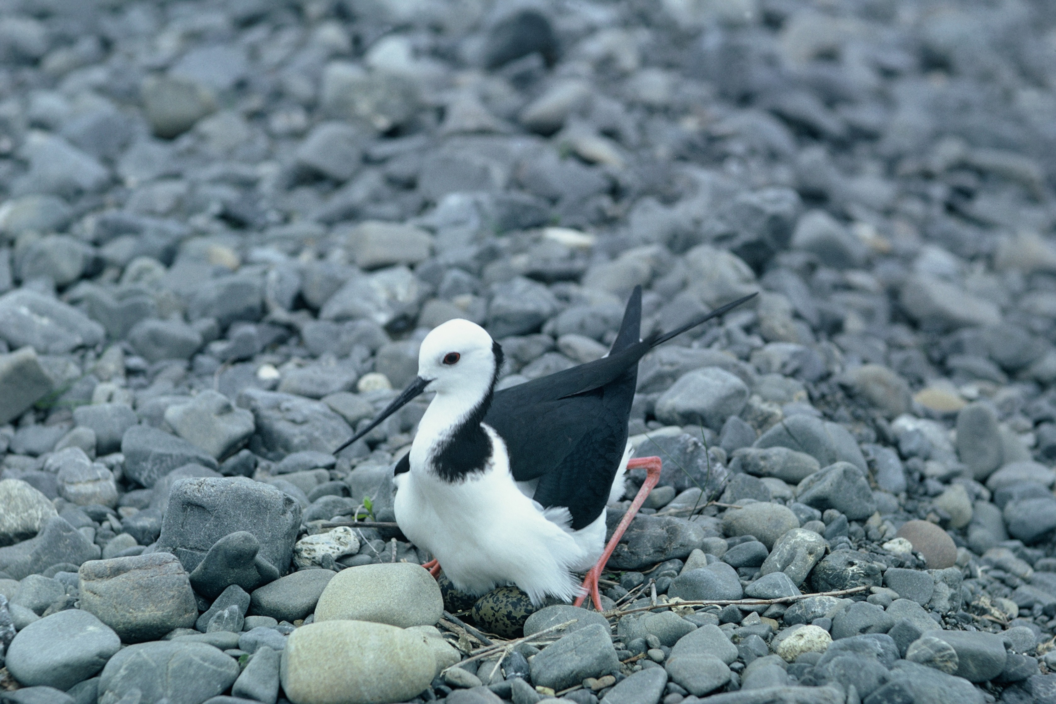 Pied Stilt Himantopus leucocephalus nesting on an egg, Tukituki River, Hawkes Bay, New Zealand